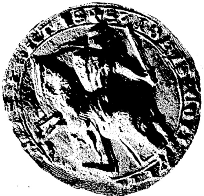 Jean I de Montfort